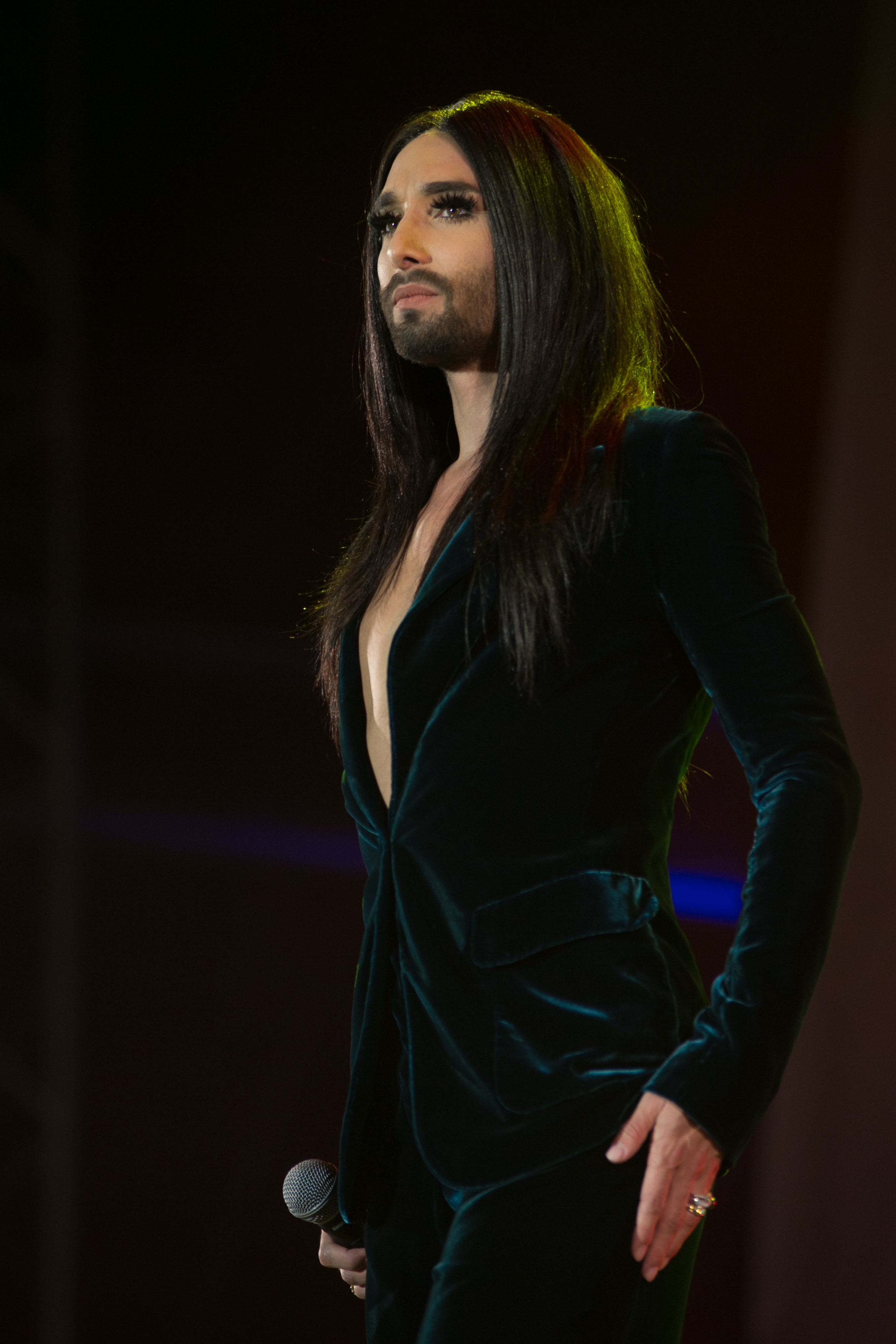 Conchita Wurst